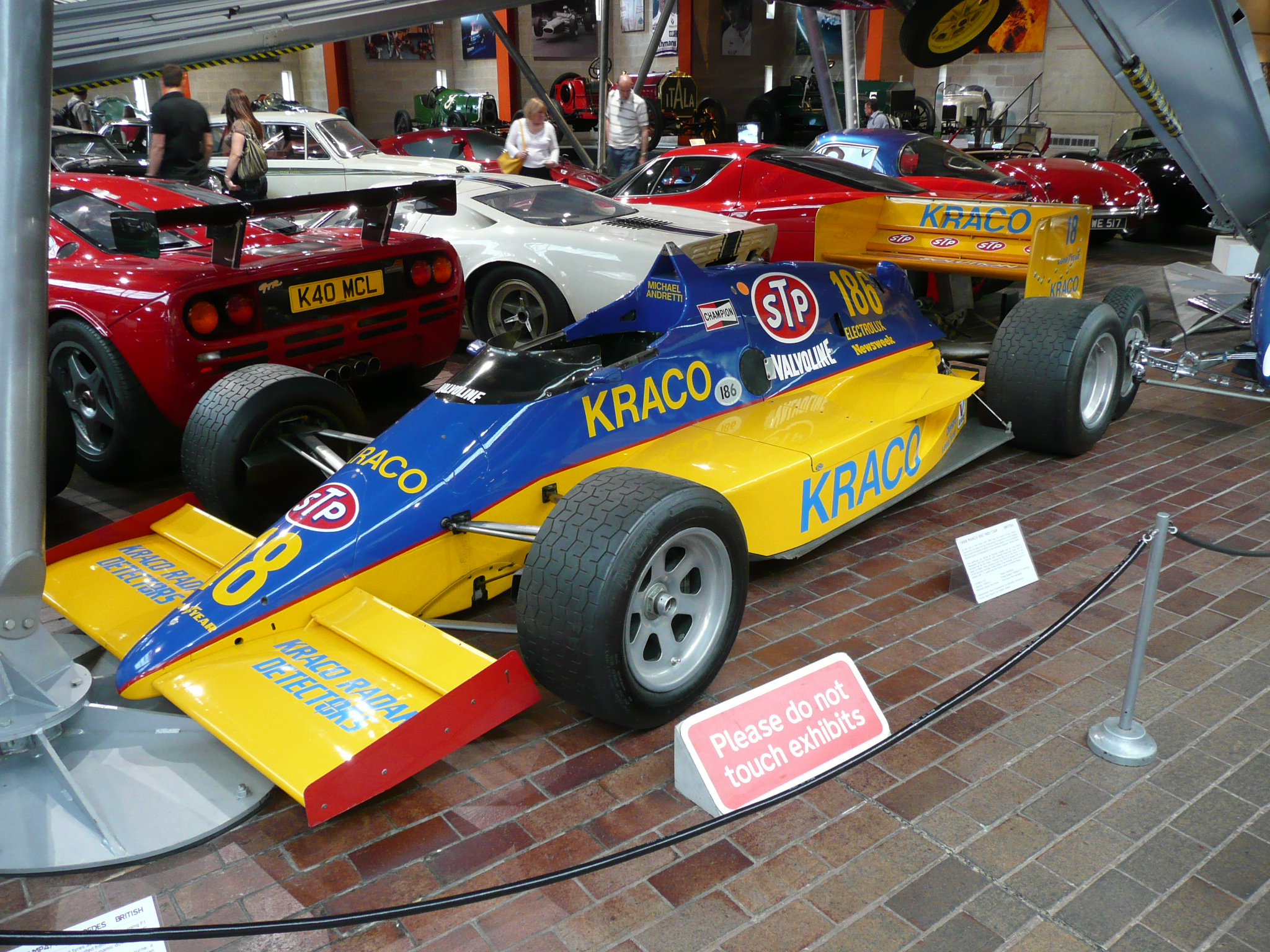 1986 March 86C Indy Car, National Motor Museum in Beaulieu.